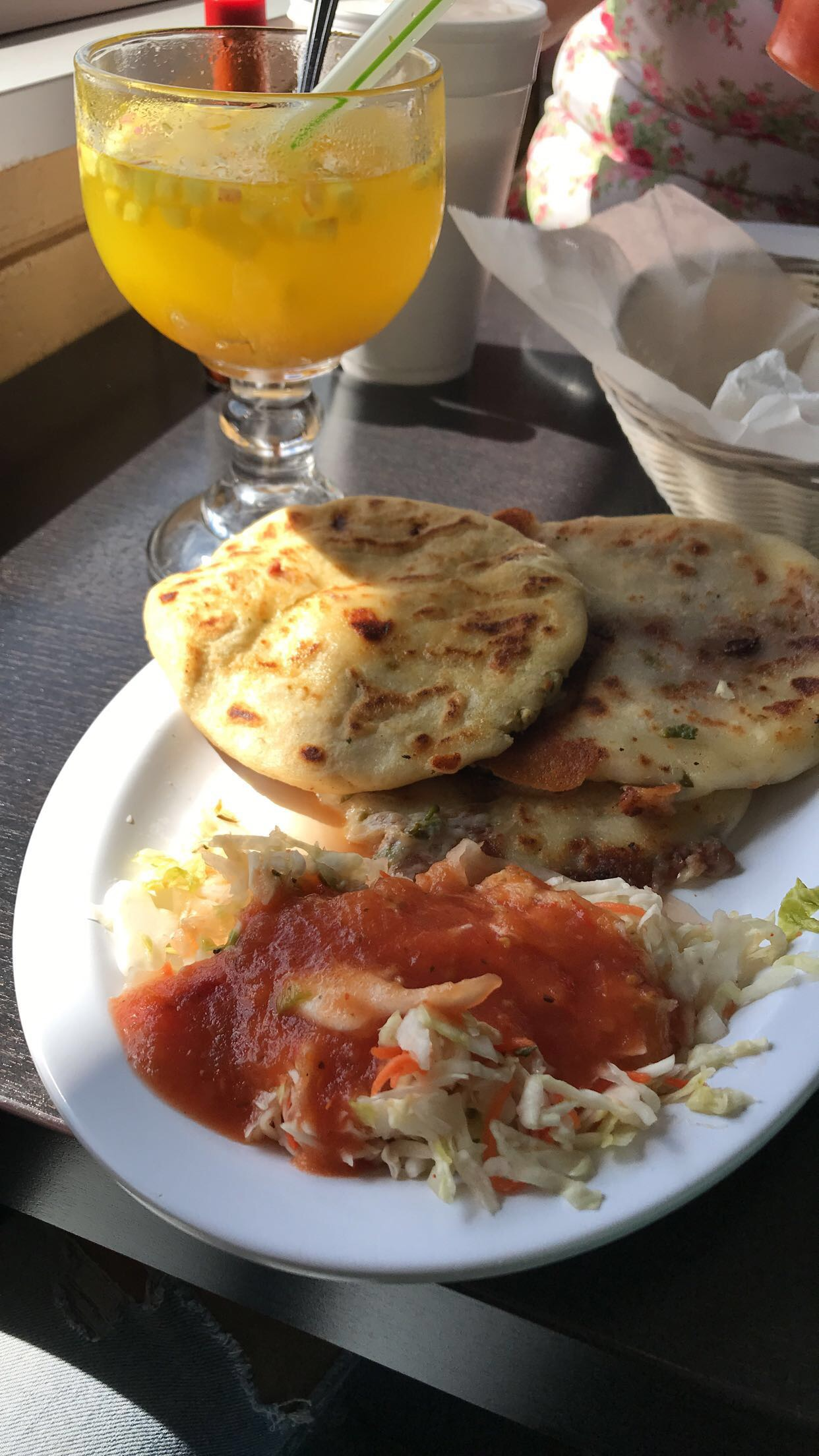 Pupusas with curtido and salsa.